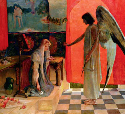 Annunciation